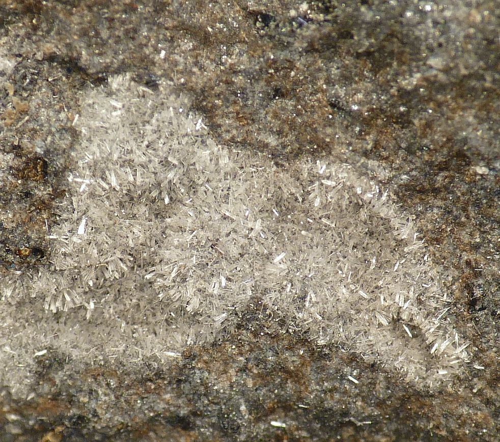 Offretite Locality: Schrimpf basalt works, Herbstein, Vogelsberg, Hesse, Germany Field of view 1 cm. Specimen and photo Leon Hupperichs.